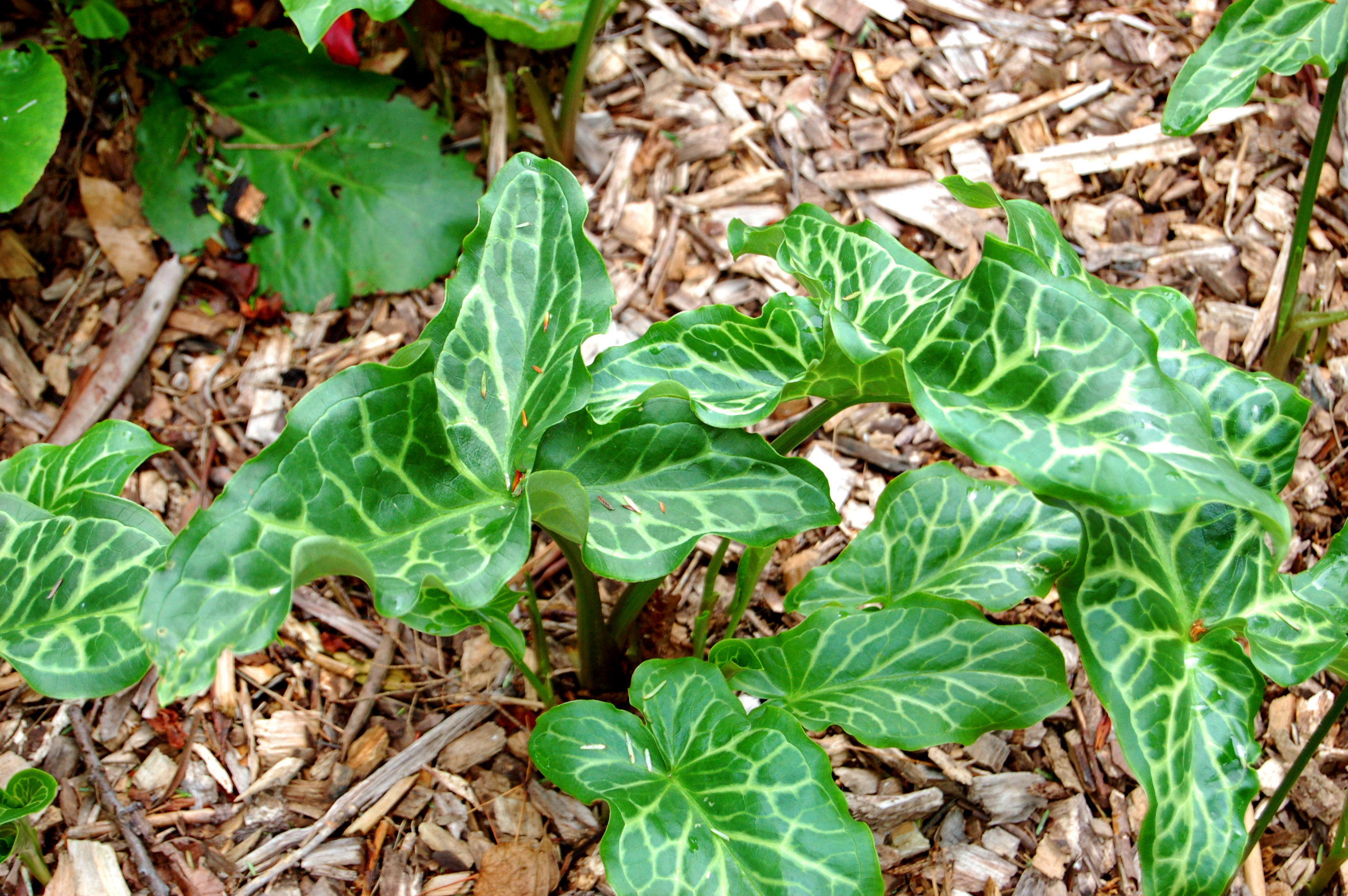 Photograph of the leaves of the Cuckoo Pint (Arum italicum). Photo taken at the Tyler Arboretum where it was identified.